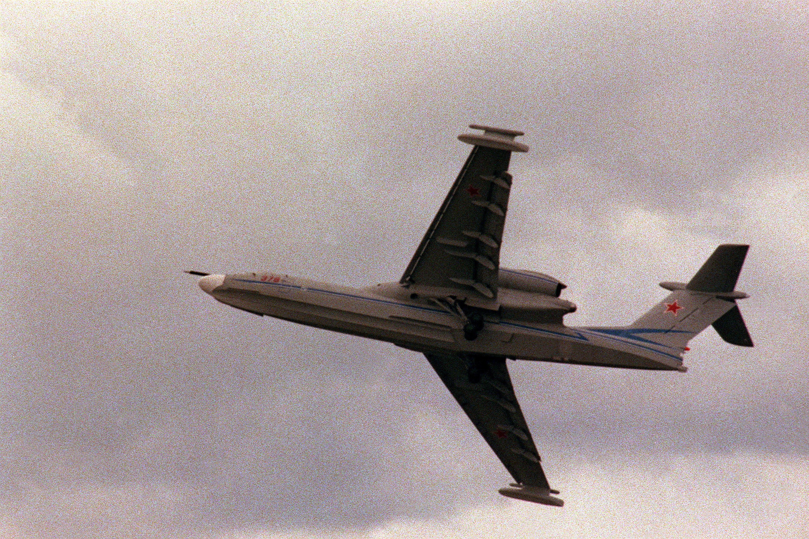 A Soviet A-40 Albatross amphibian aircraft raises its landing gear after taking off for a demonstration flight at the 1991 Paris Air Show.